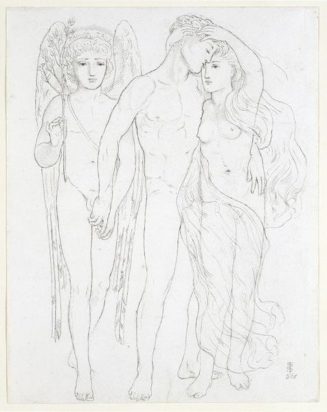 Simeon Solomon, The Bride, Bridegroom and Sad Love, 1865